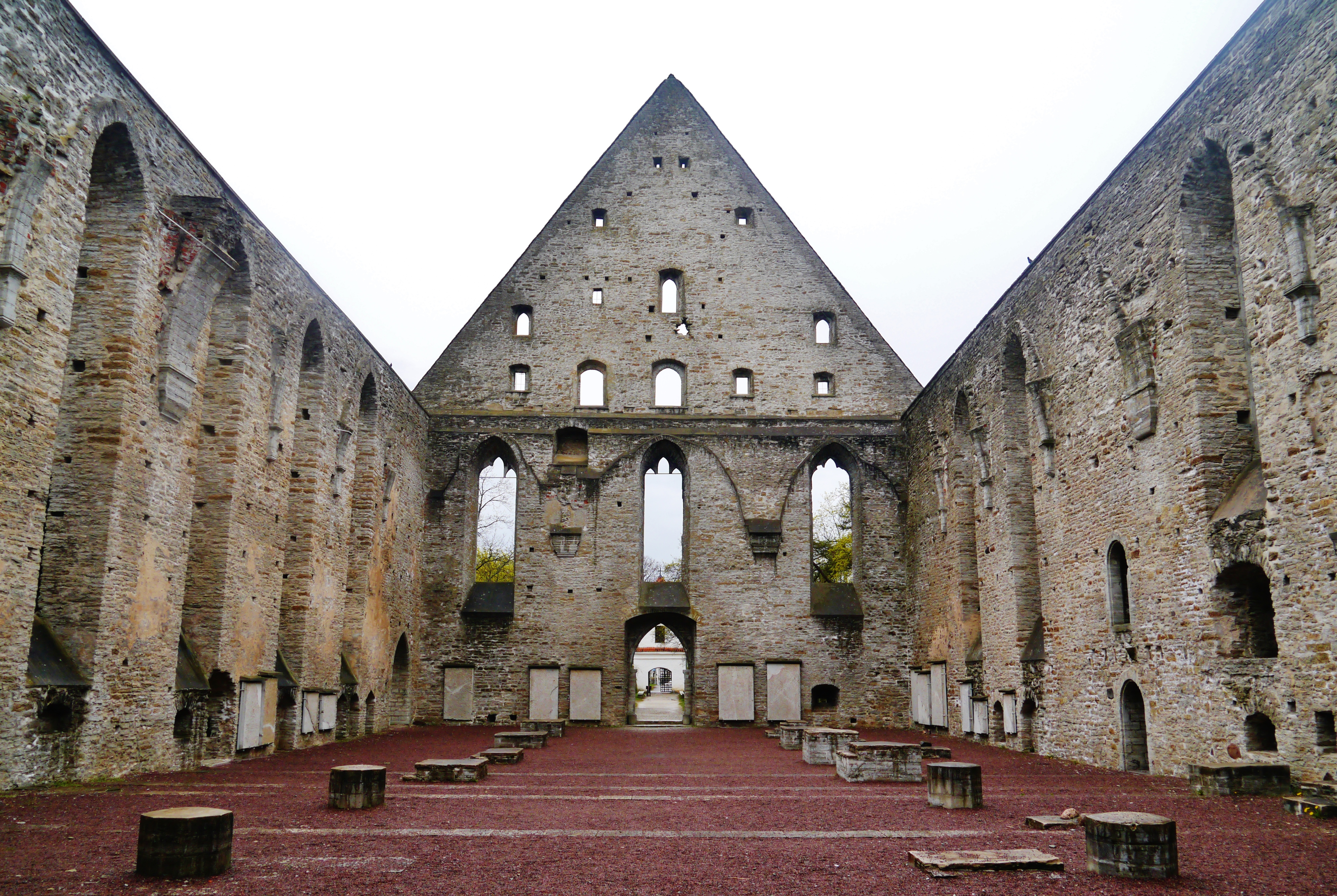 Nave of St. Brigid's Monastery at Pirita Neighborhood, Tallinn, Estonia